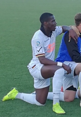 John-Christophe Ayina playing with Savoia